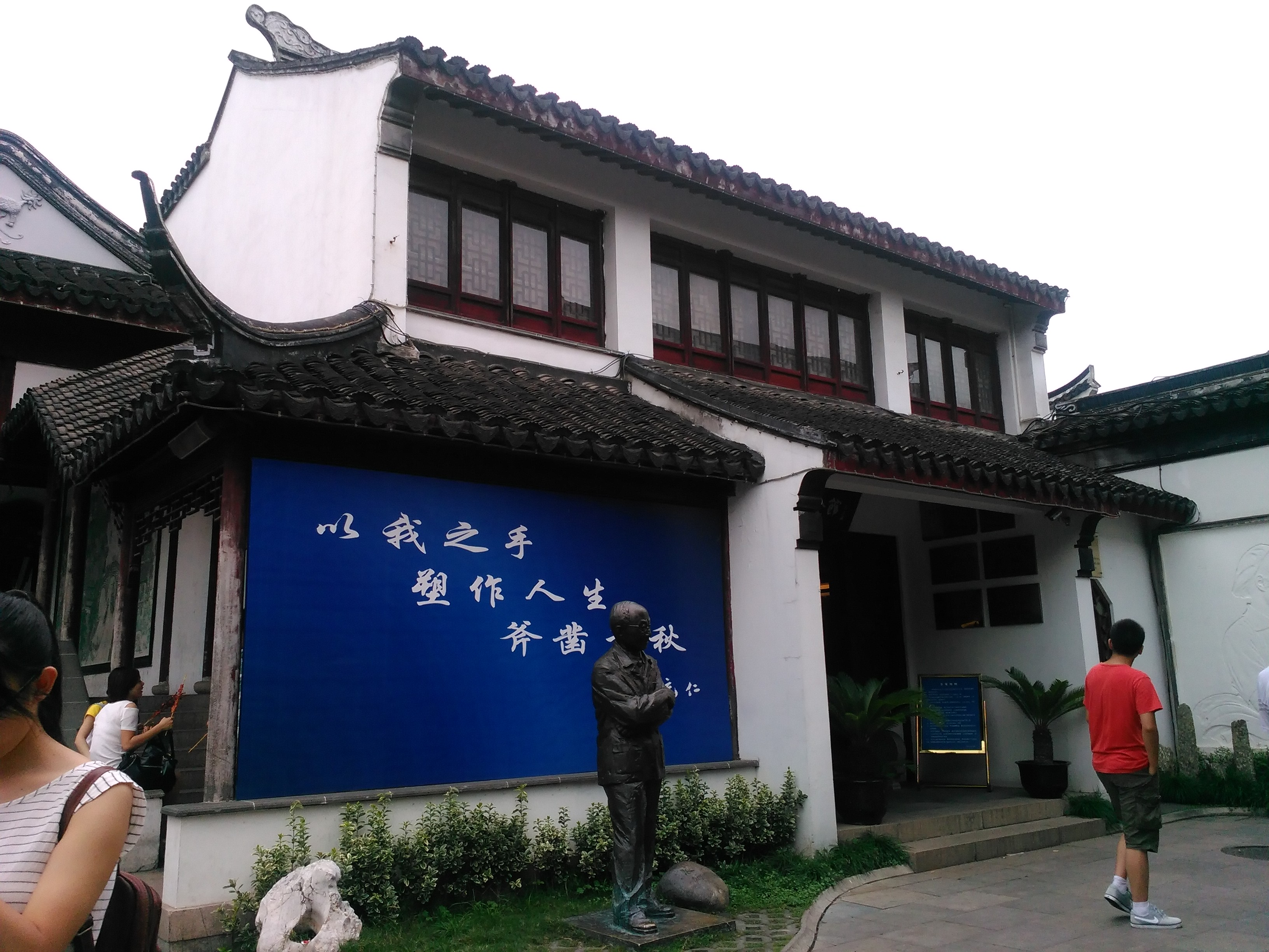 Zhang Chongren (Tchang Tchong-jen) Memorial Hall